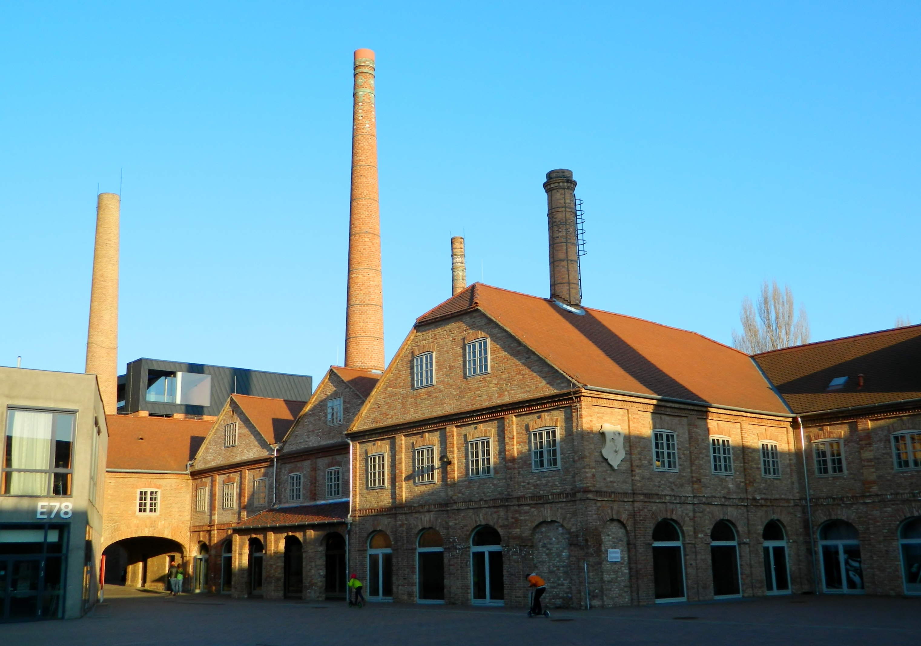 The pirogranit yard in the Zsolnay cultural quarter